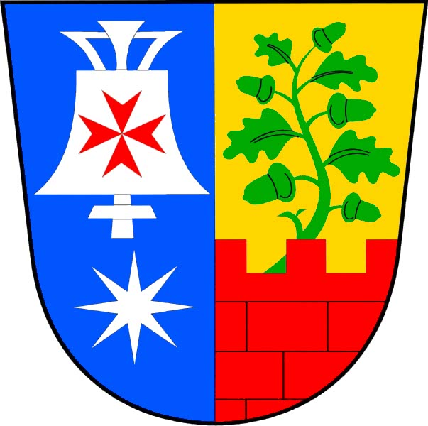 Municipal coat of arms of Semín village, Pardubice District, Czech Republic.